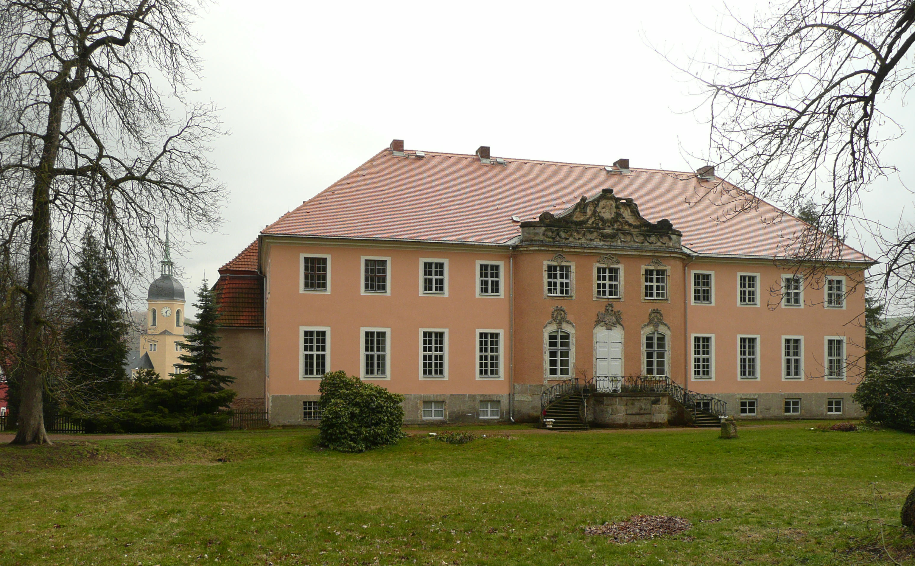 This image shows Reichstädt castle in Reichstädt near Dippoldiswalde.